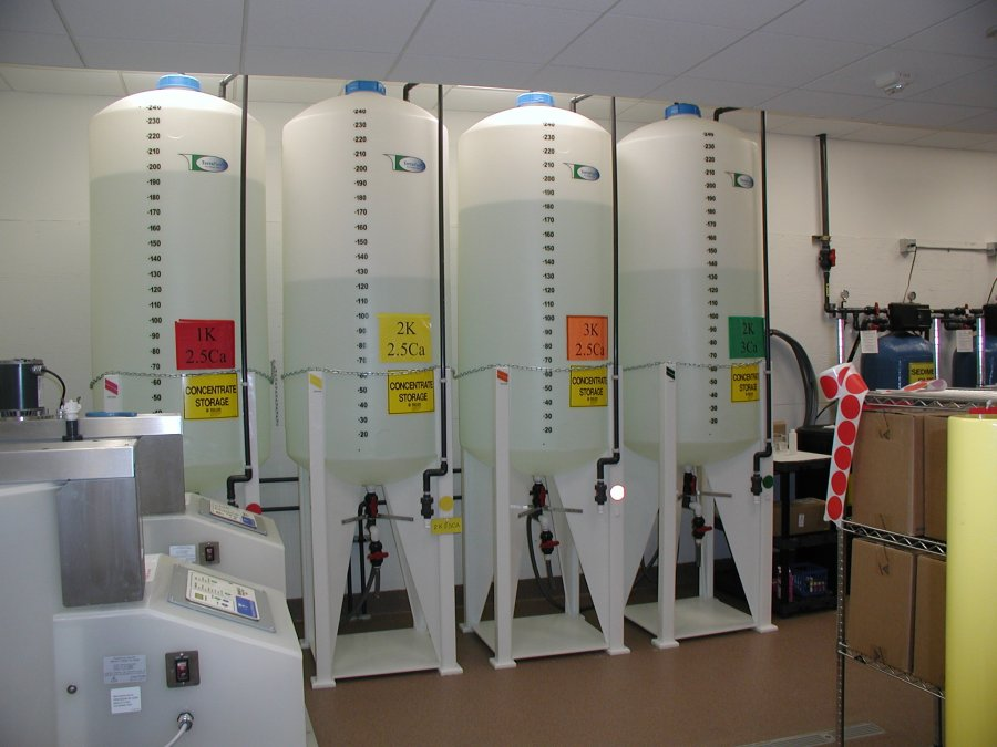 This photo was taken in 2008 and shows a dialysis unit's central dialysate delivery system. The dialysate concentrate is gravity fed to the dialysis stations where the dialysis machines mix the concentrate with water that has been filtered to Association for the Advancement of Medical Instrumentation (AAMI) standards for hemodialysis water quality. The photo shows four flavors of dialysate concentrate with various concentrations of potassium and calcium. BillpSea (talk) 16:48, 17 January 2008 (UTC)